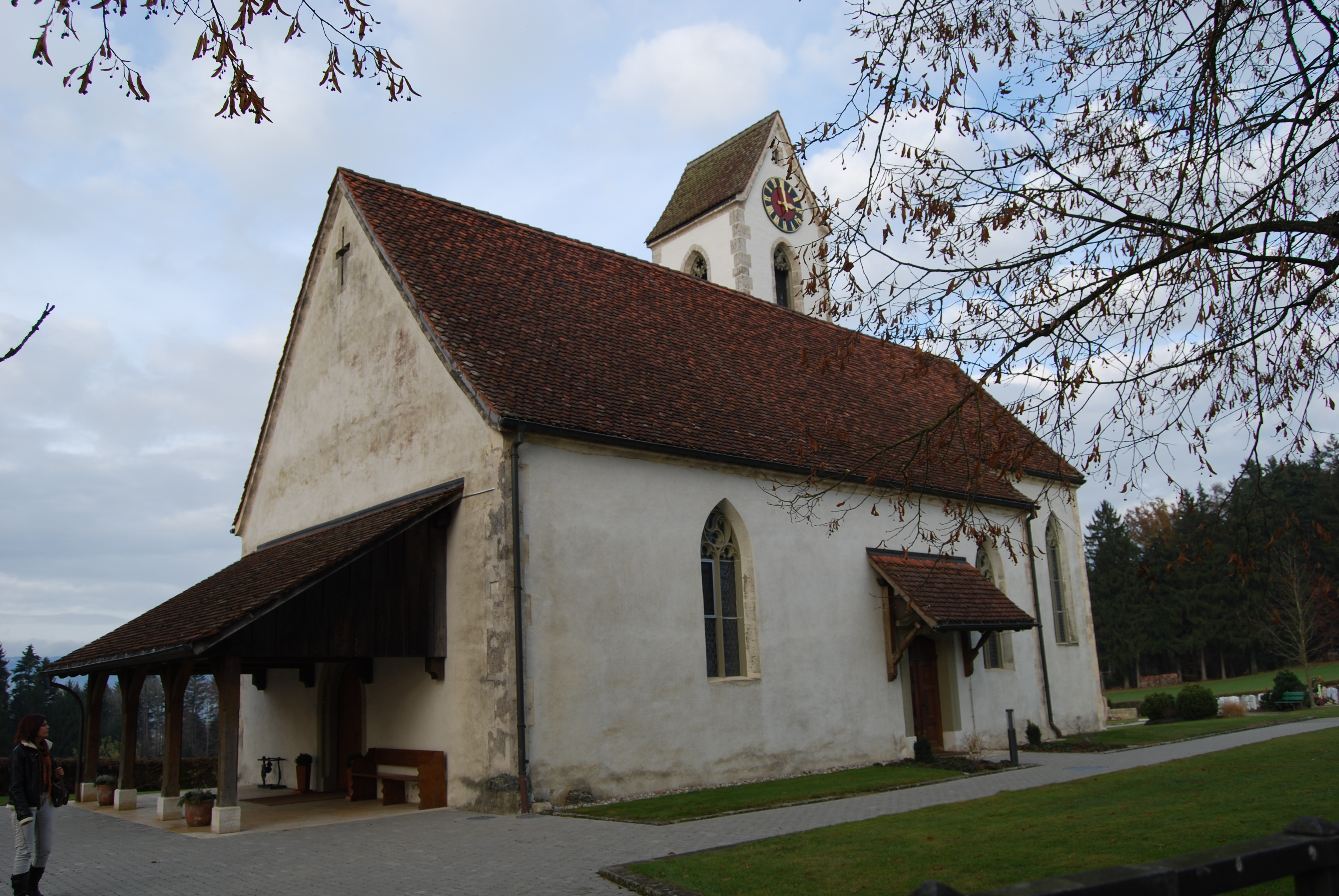 Protestant Church of Seeberg, canton of Bern, Switzerland